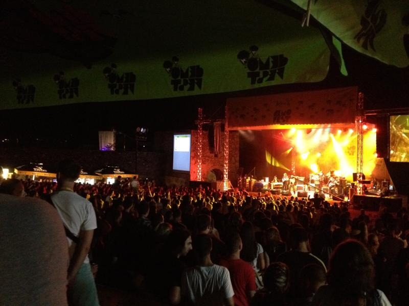 26 July 2012 - Evening